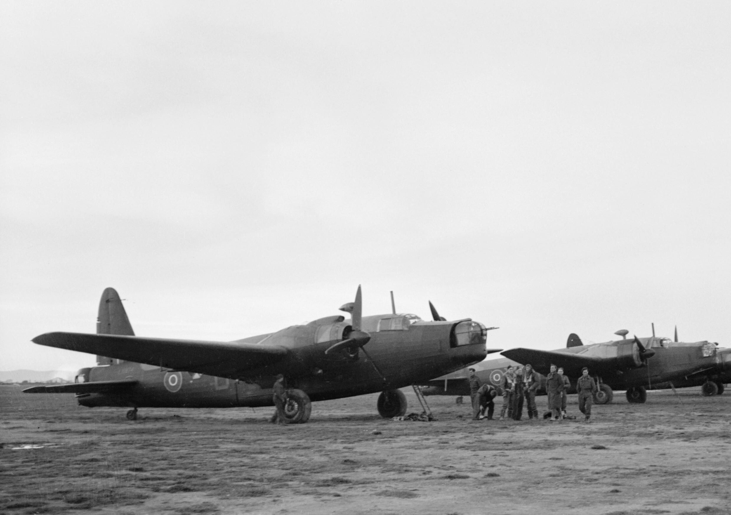 Royal Air Force- Italy, the Balkans and South East Europe, 1942-1945. An aircrew of No. 40 Squadron RAF gather by their Vickers Wellington Mark X at Foggia Main, Italy, before setting off on a night bombing mission.